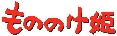 Mononoke hime logo